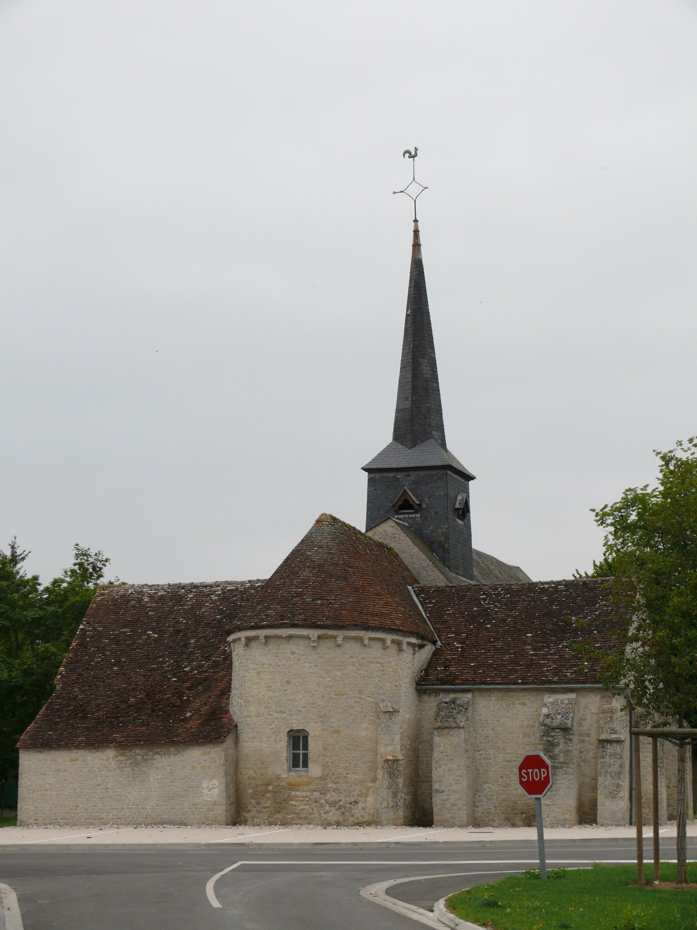 Saint-Laurent's church of Bouzonville-aux-Bois (Loiret, Centre-Val de Loire, France).